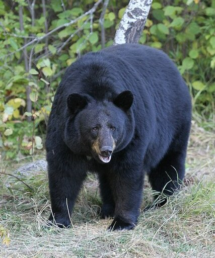 crop of File:01 Schwarzbär.jpg